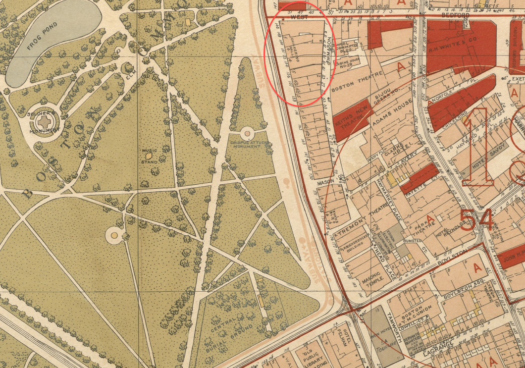 Detail of map of Boston, Massachusetts, USA, showing Chickering Hall Title: Map of the central business district of Boston Publisher: Geo. W. Stadly & Co. Date: 1896